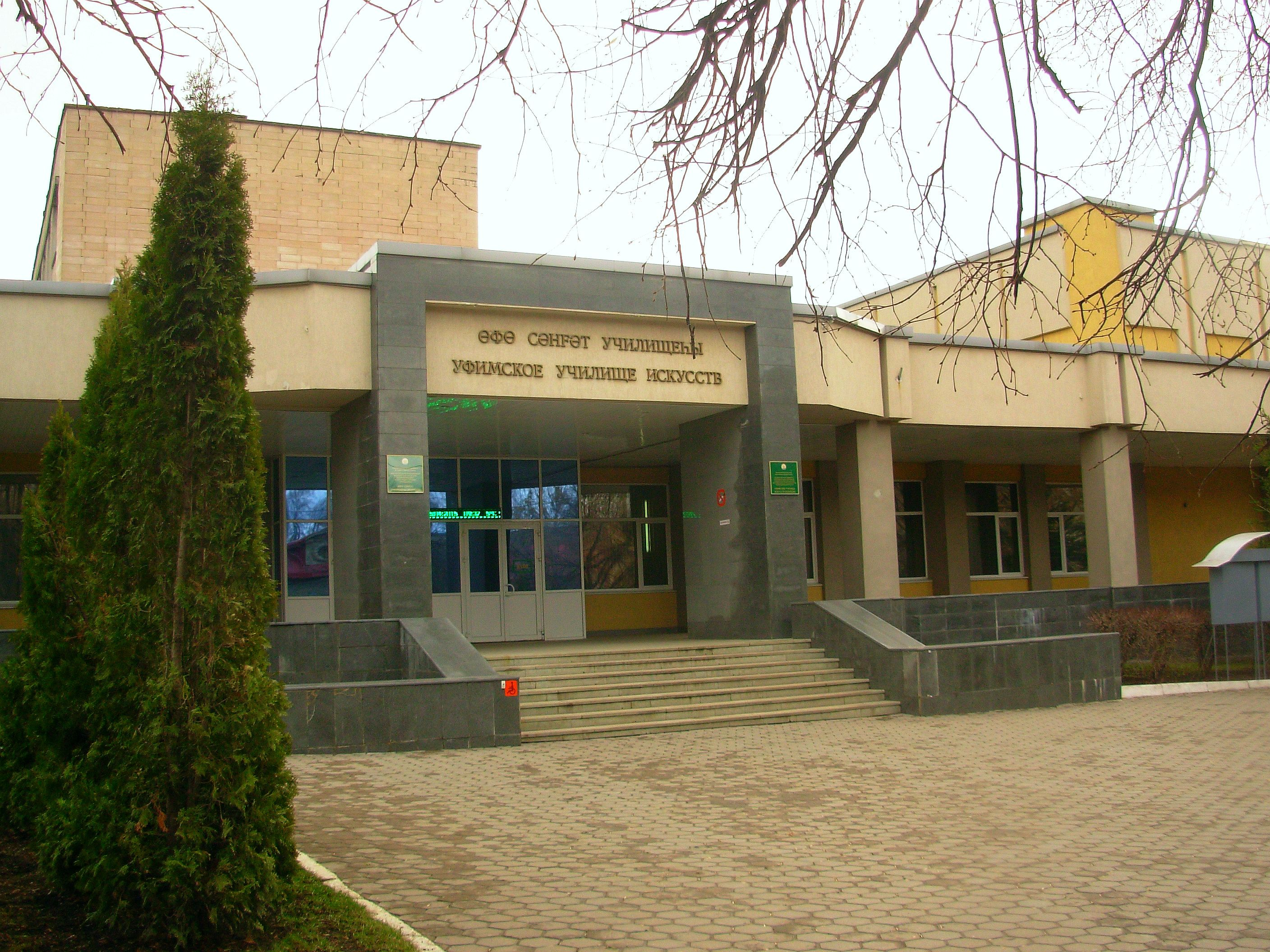 Уфимское училище искусств